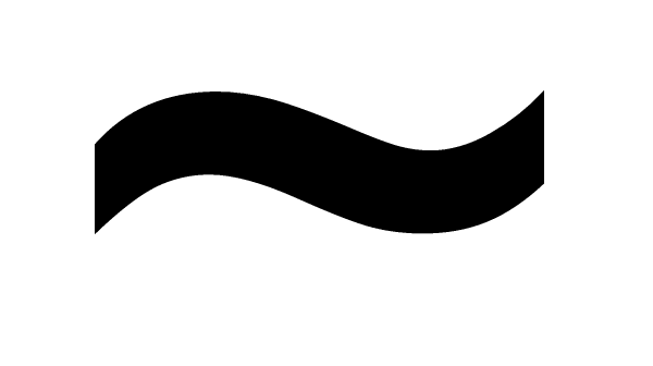 A tilde (Punctuation mark)